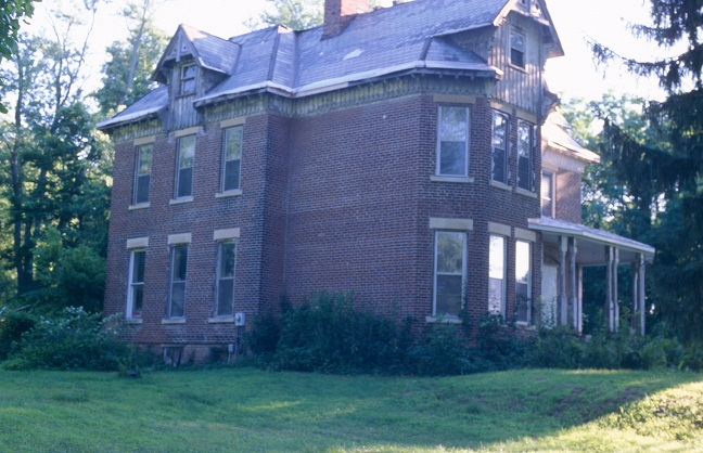 Side of the Hoham-Klinghammer-Weckerle House and Brewery Site, located at 1715 Lake Avenue (State Road 17) in Plymouth, Indiana, United States. Built in 1880, it is listed on the National Register of Historic Places.